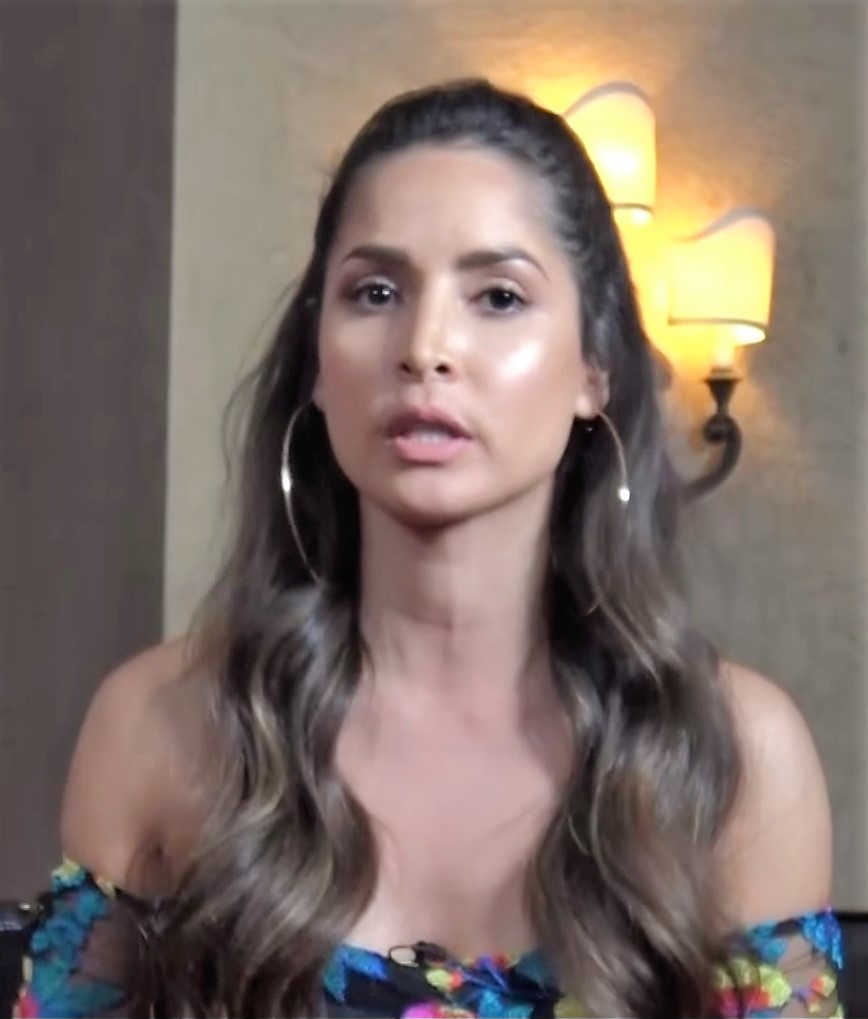 Actress Carmen Villalobos shares her life with Dulce Osuna​ and describes the message behind "Sin Senos Si Hay Paraiso" and how she identifies with singer Jenn Rivera. "Sin senos si hay Paraiso"​ premieres tonight at 9pm/8c on Telemundo​ Carmen, also talks about the movie she just finished with WilliamLevy​ and her plans for the future by Dulce Osuna